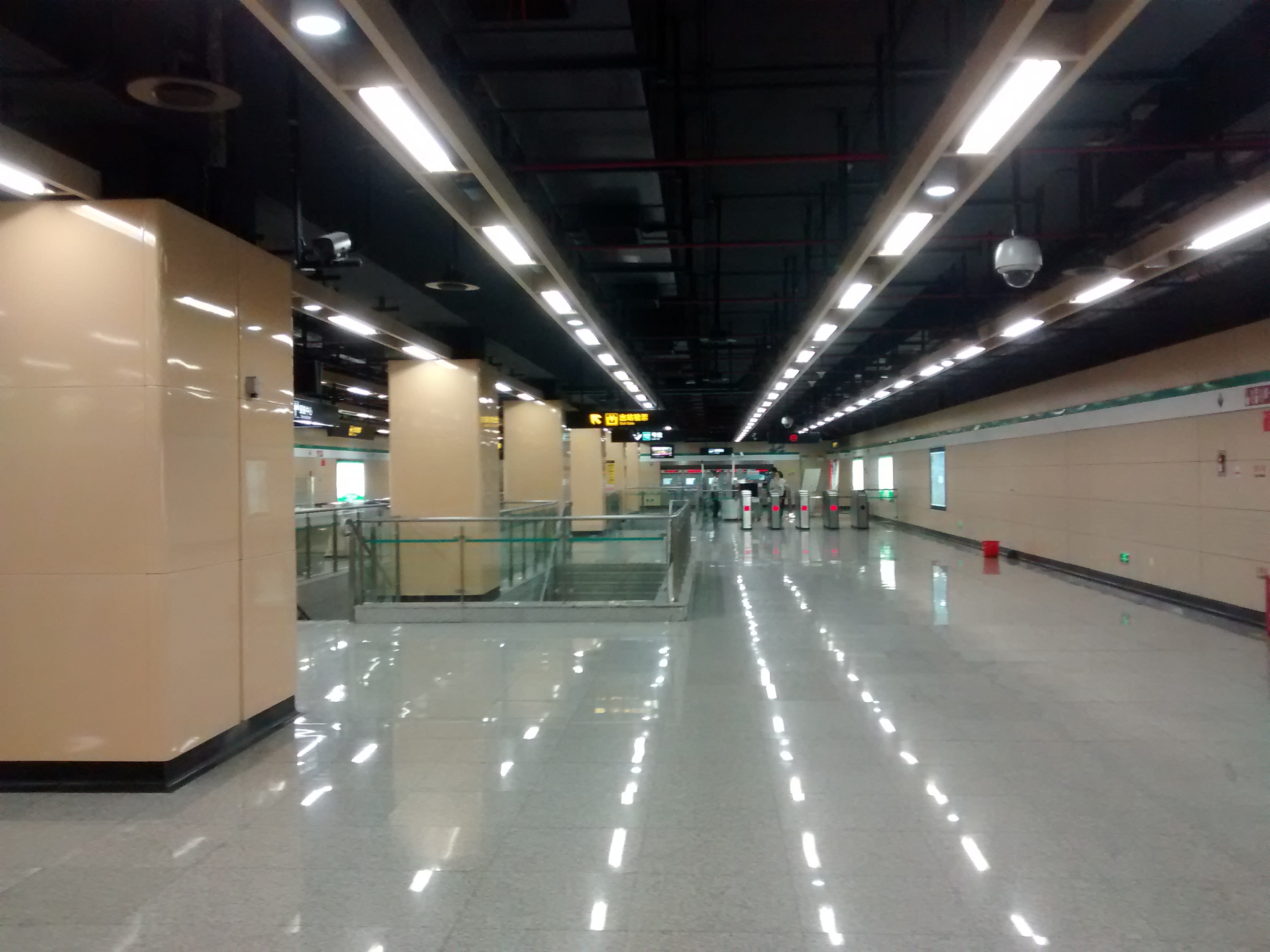 Jinjing Road Station, Shanghai.